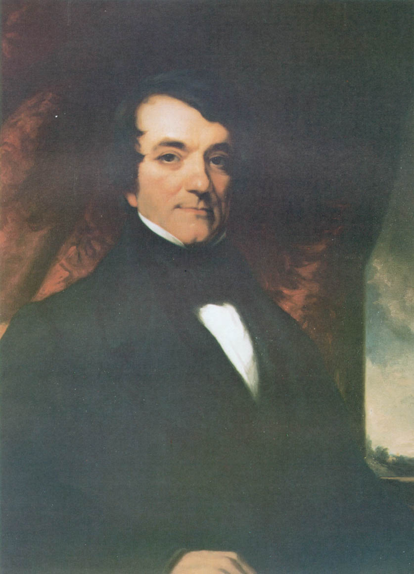 John C. Spencer (1788-1855)